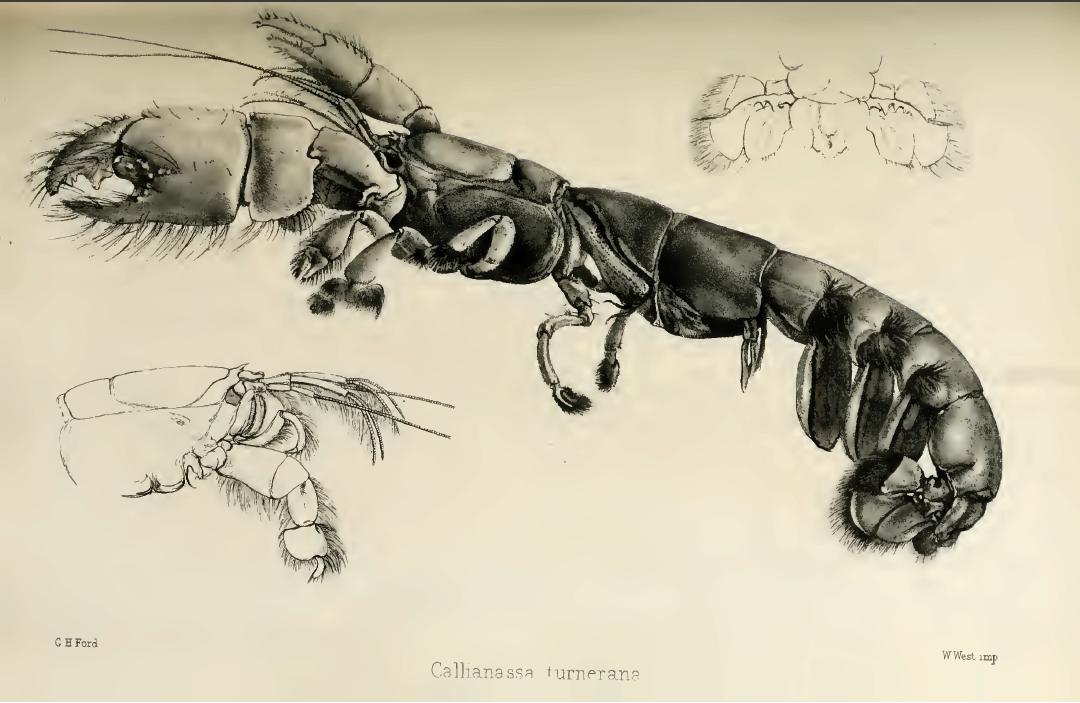 Illustration of "Callianassa turnerana" (=Lepidophthalmus turneranus) from Adam White's original description of the species.